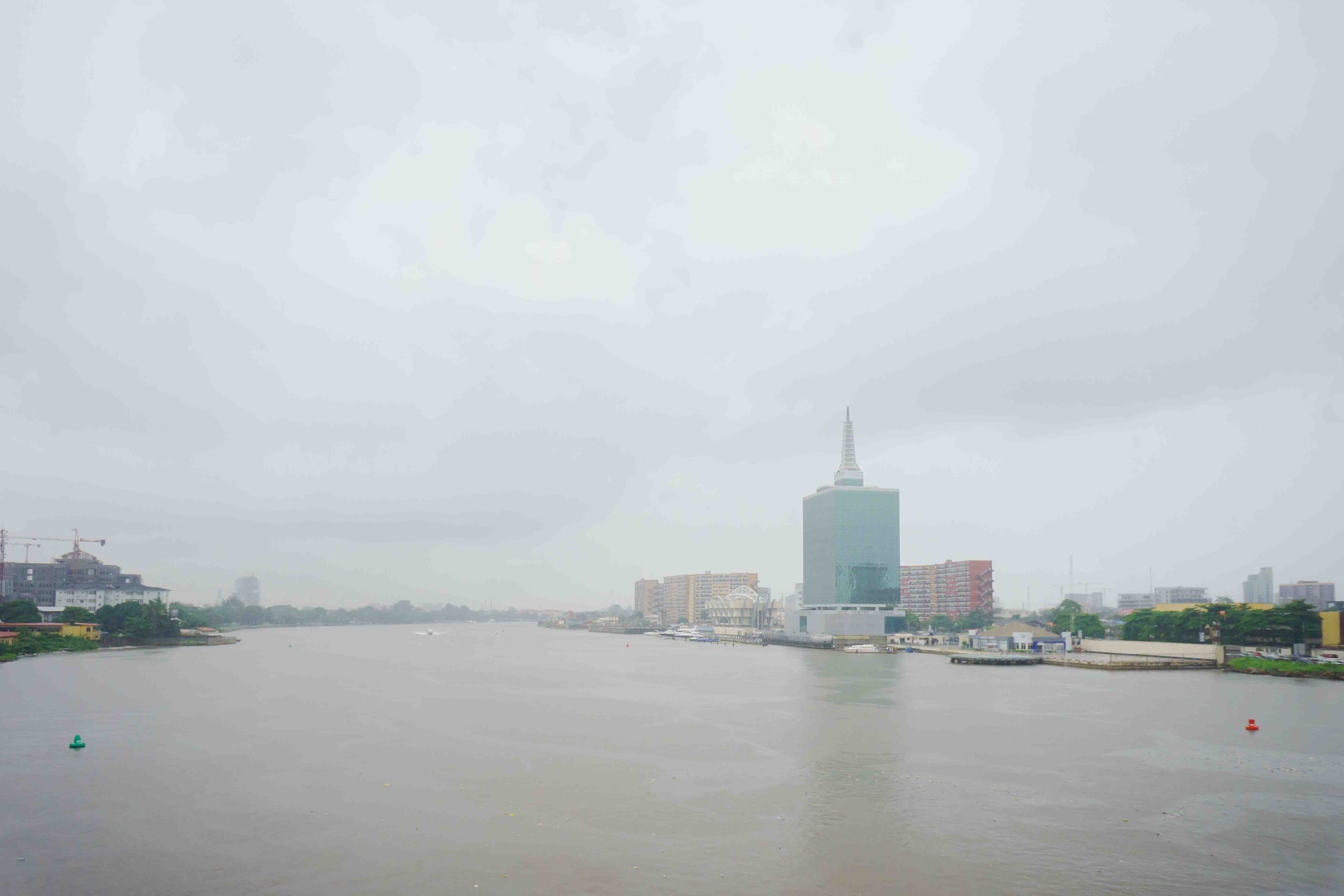 Notable Landmarks and busstation in lagos state